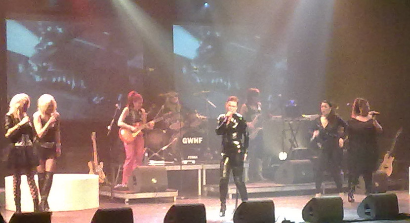 Singer Neel (van der Elst; in the middle with black shiny suit) performs with Girls Wanna Have Fun in the Rijswijkse Schouwburg (theatre in The Netherlands, near The Hague) on 12 February 2010